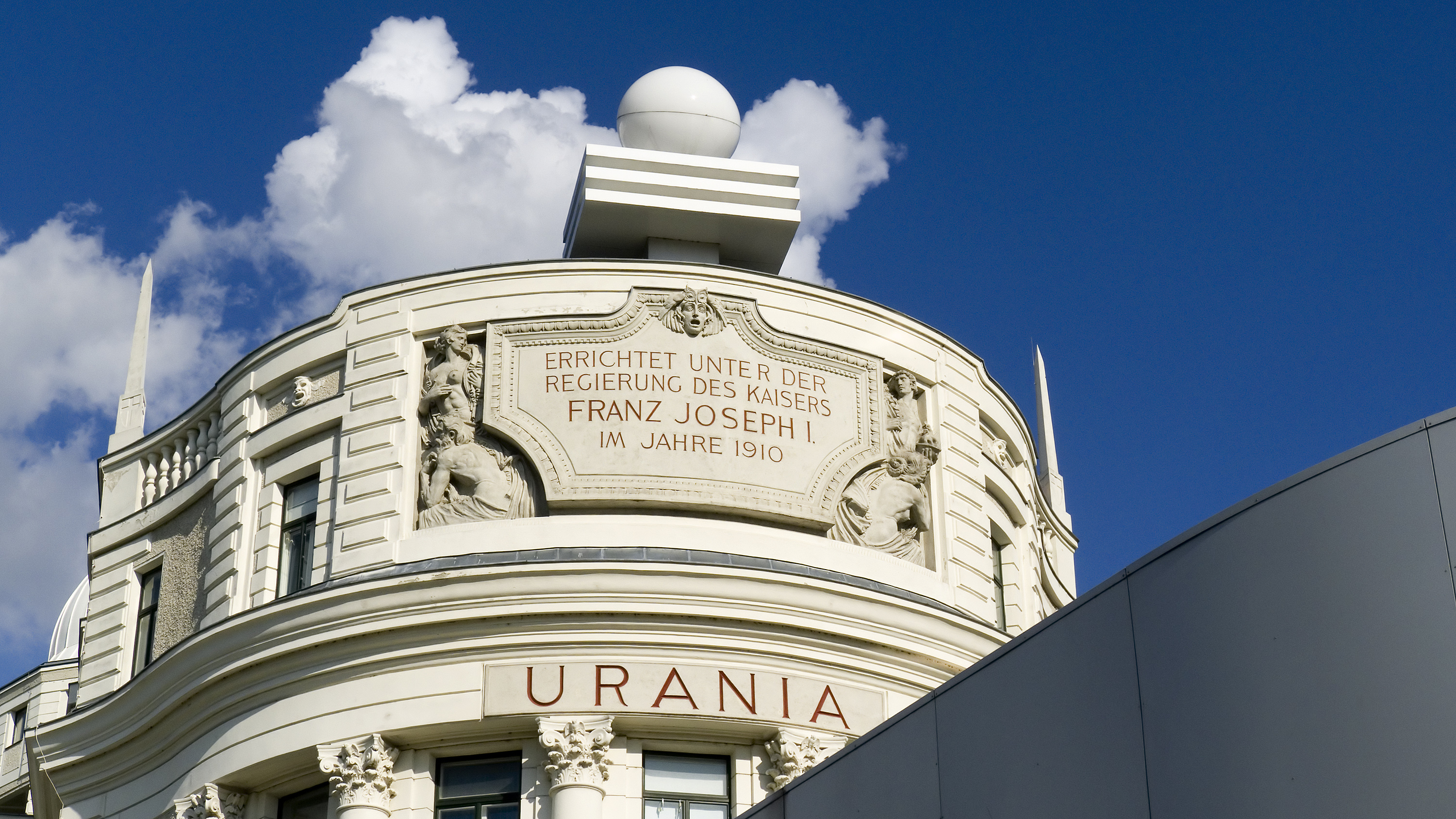 Adult high school Urania (Wien) in Vienna 1